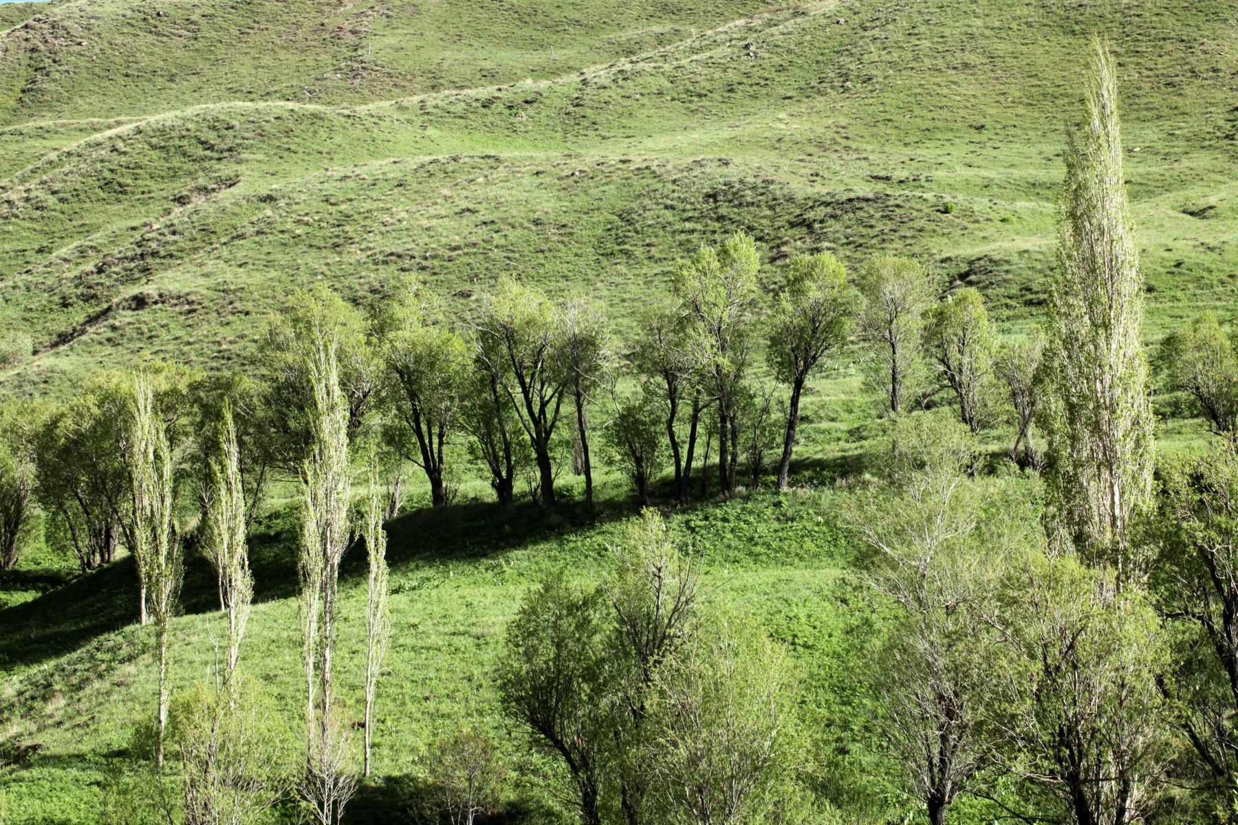 Dizin, Tehran Province, Iran